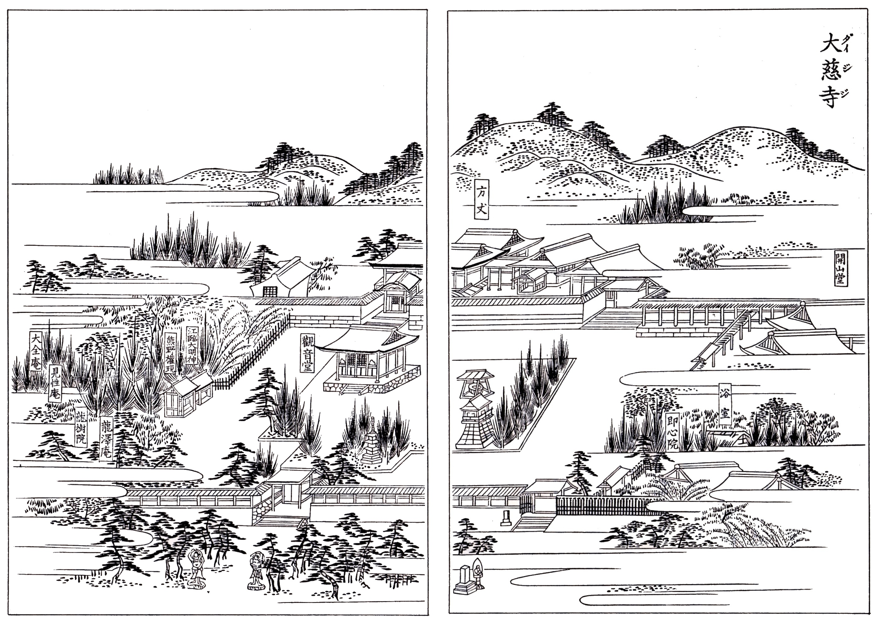 Daiji-ji Temple in the 19th Century (Shibushi City, Kagoshima, Japan)